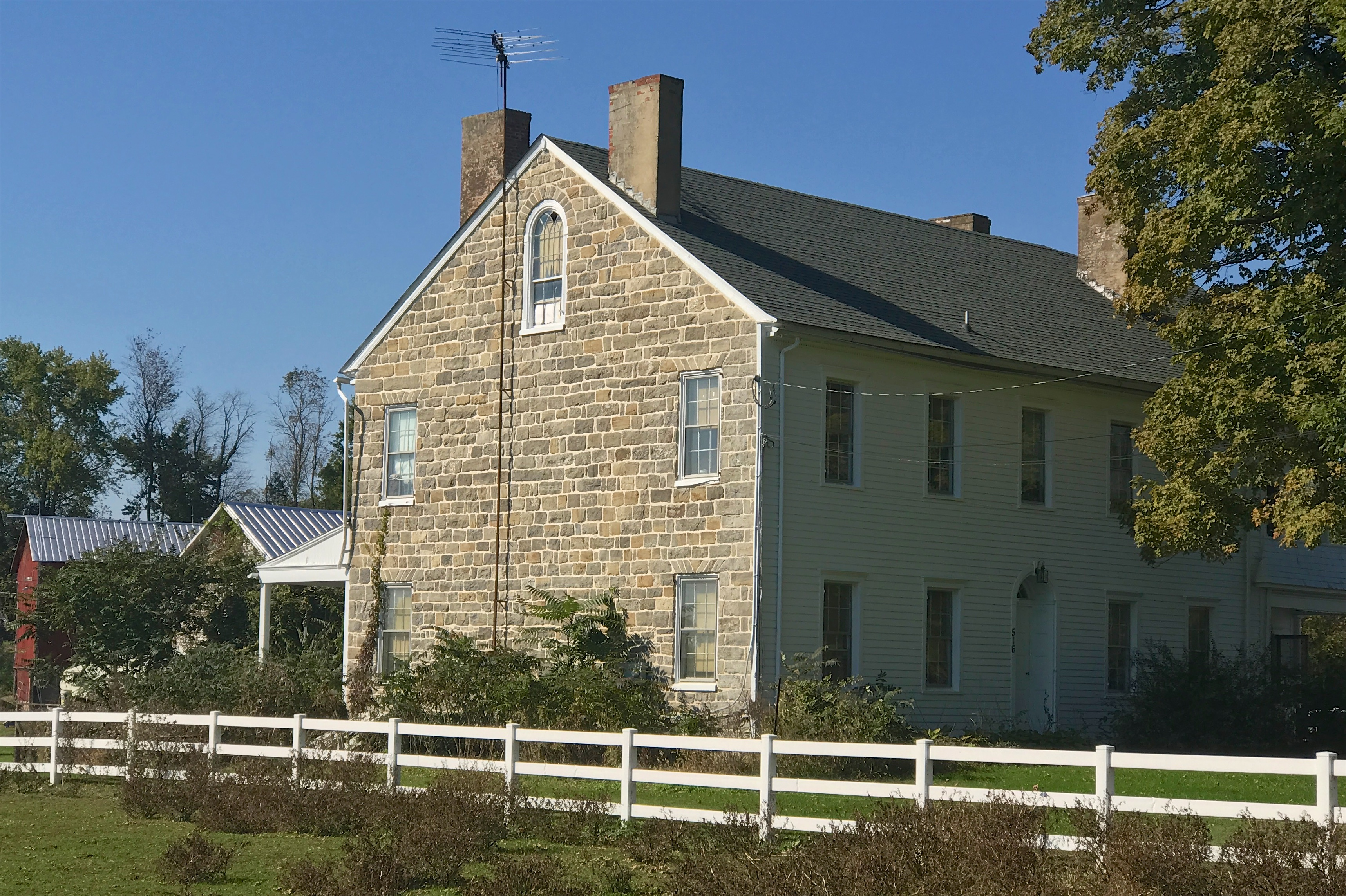 Farmhouse on North Main Street in Stewartsville, New Jersey.